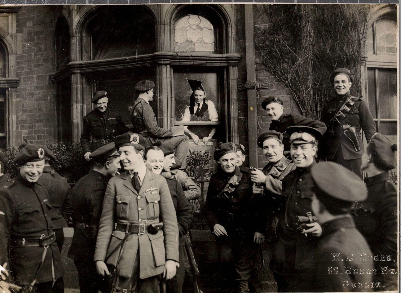 This shot of joking Black and Tans and Auxiliaries was taken outside the London and North Western Hotel, North Wall, Dublin as they surveyed the damage after an I.R.A. attack on their quarters. Written on the mount of this photo was "Tans glad to have escaped the bombs thrown at their headquarters in Dublin". The next day's Irish Times started a long report with these paragraphs: "... the hotel, which is at present occupied by Auxiliary police, was attacked shortly before eight o'clock yesterday morning by a party of men with bombs and rifles. The police returned the fire, and one of the attackers was seriously wounded and has since been taken to George V. Hospital. Two other men were also wounded and are now patients in the Mater Hospital. Another account from an authoritative source says that twelve bombs were thrown at the windows of the hotel, which is occupied by members of the Auxiliary police force employed on duty at the docks. Six men fired revolvers at the windows. Fire was returned by the police and one man was killed in the act of throwing a bomb, and one cadet was slightly wounded..." Date: Monday, 11 April 1921 NLI Ref.: HOGW 117